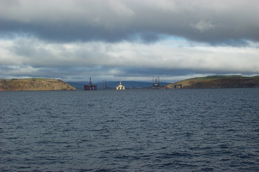 Entrance to the Cromarty Firth from seaward